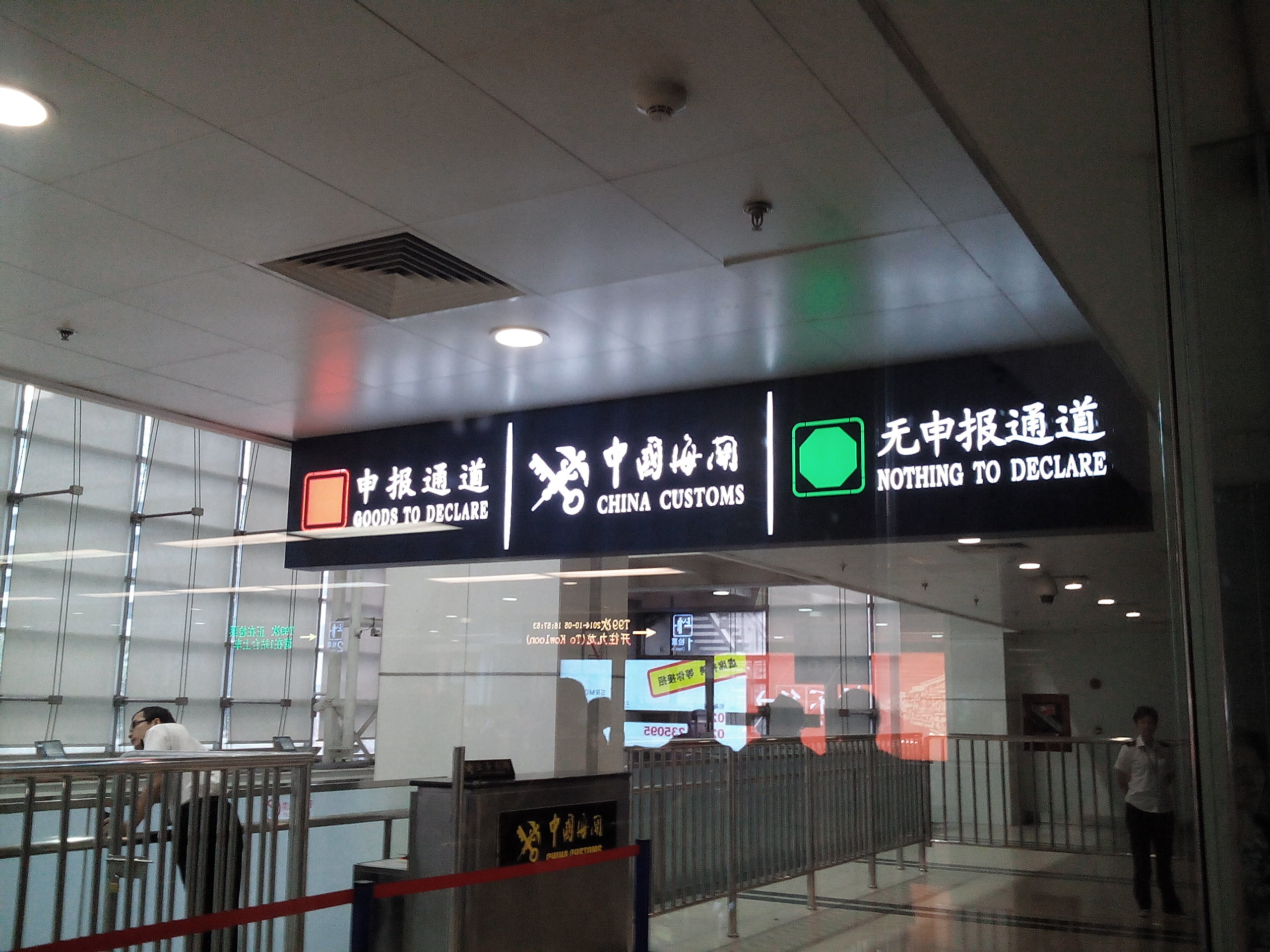 201410 China Custom Checkpoint at Shanghai Railway Station, taken from Waiting Room 1 of Shanghai Station. Z99 was still called as T99 at that time